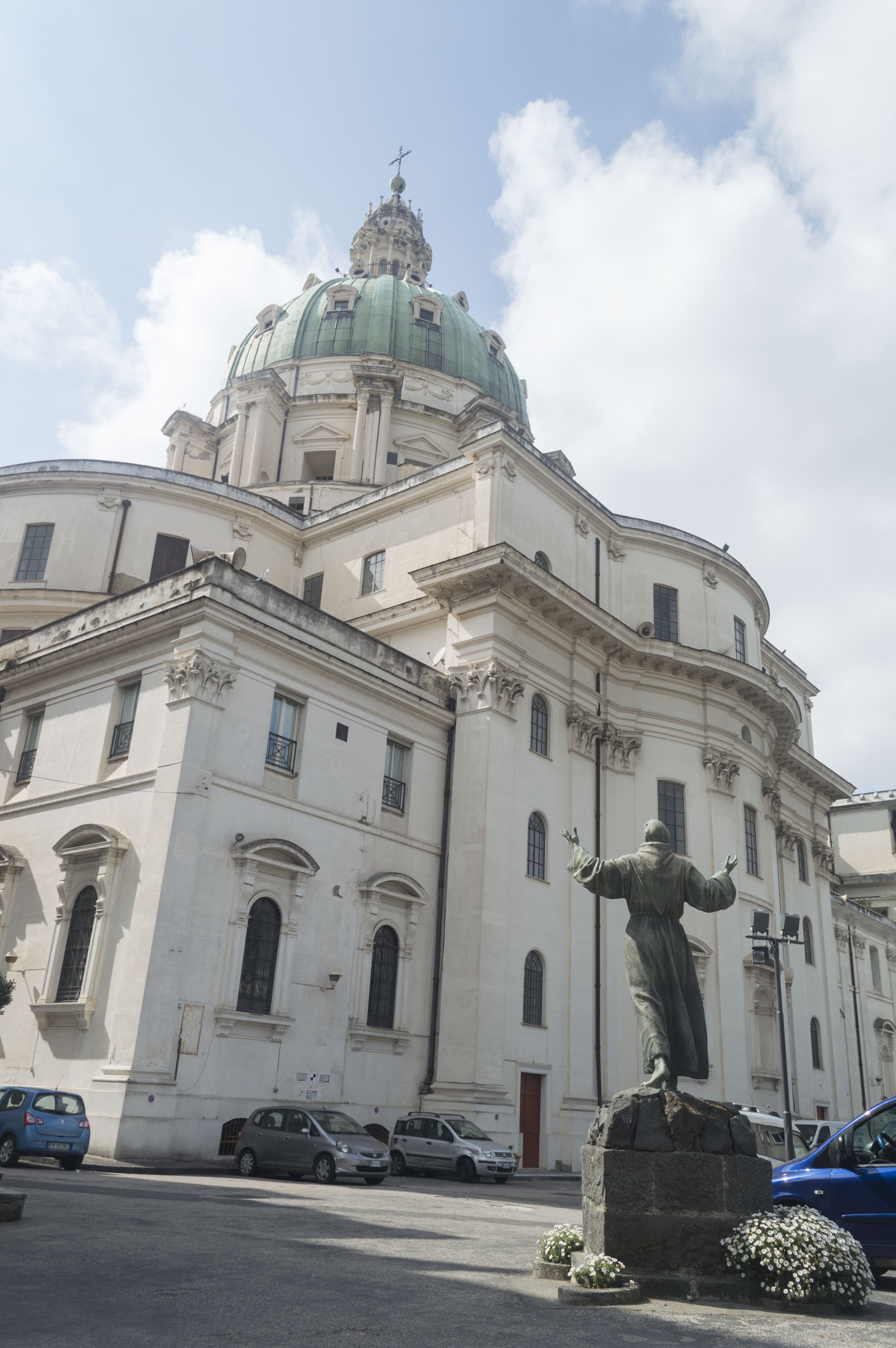 Basilica dell'Incoronata Madre del Buon Consiglio, Naples